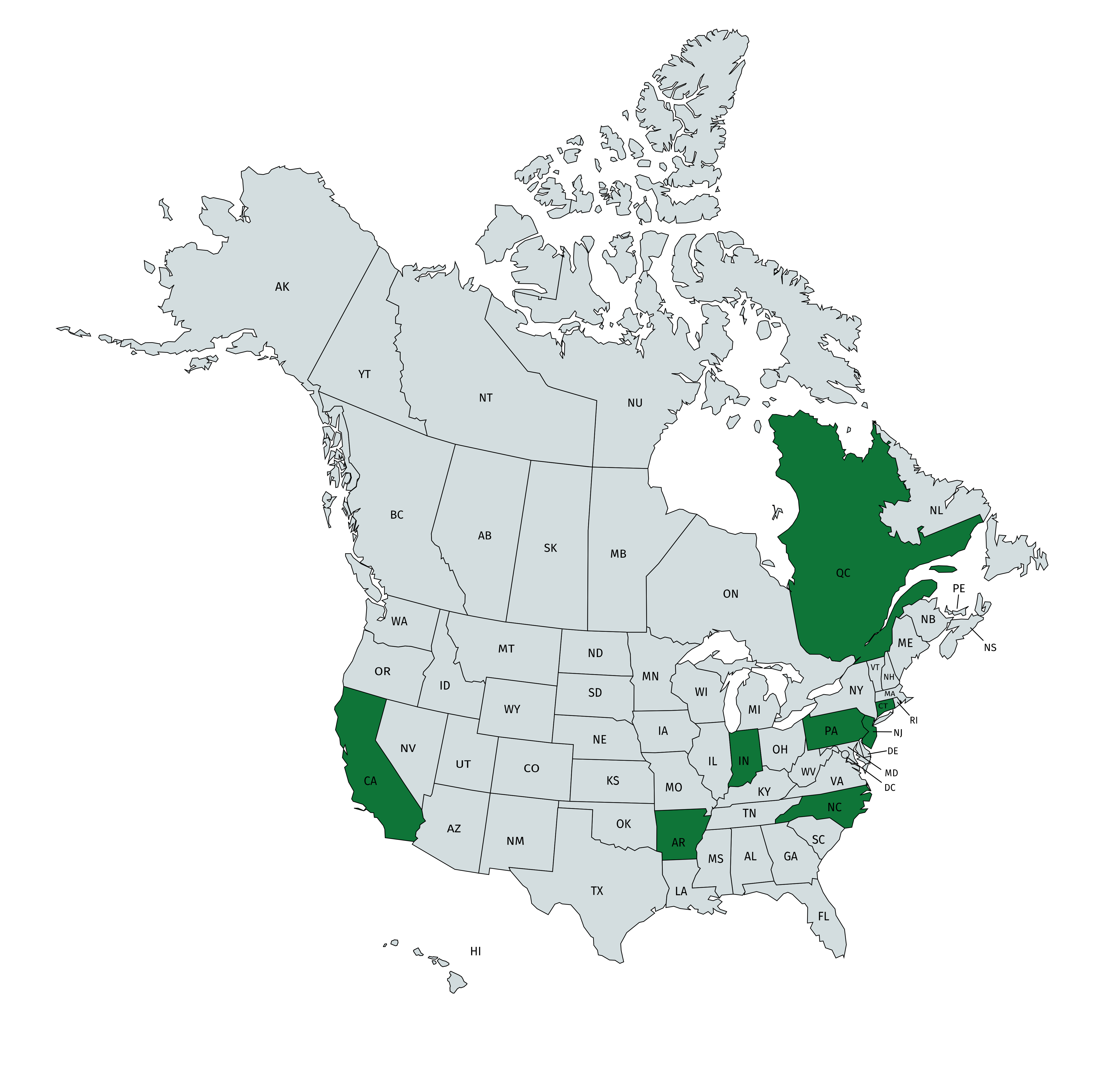 Map showing states represented at the 1952 Little League World Series, which was held from August 26 to August 29 in Williamsport, Pennsylvania.